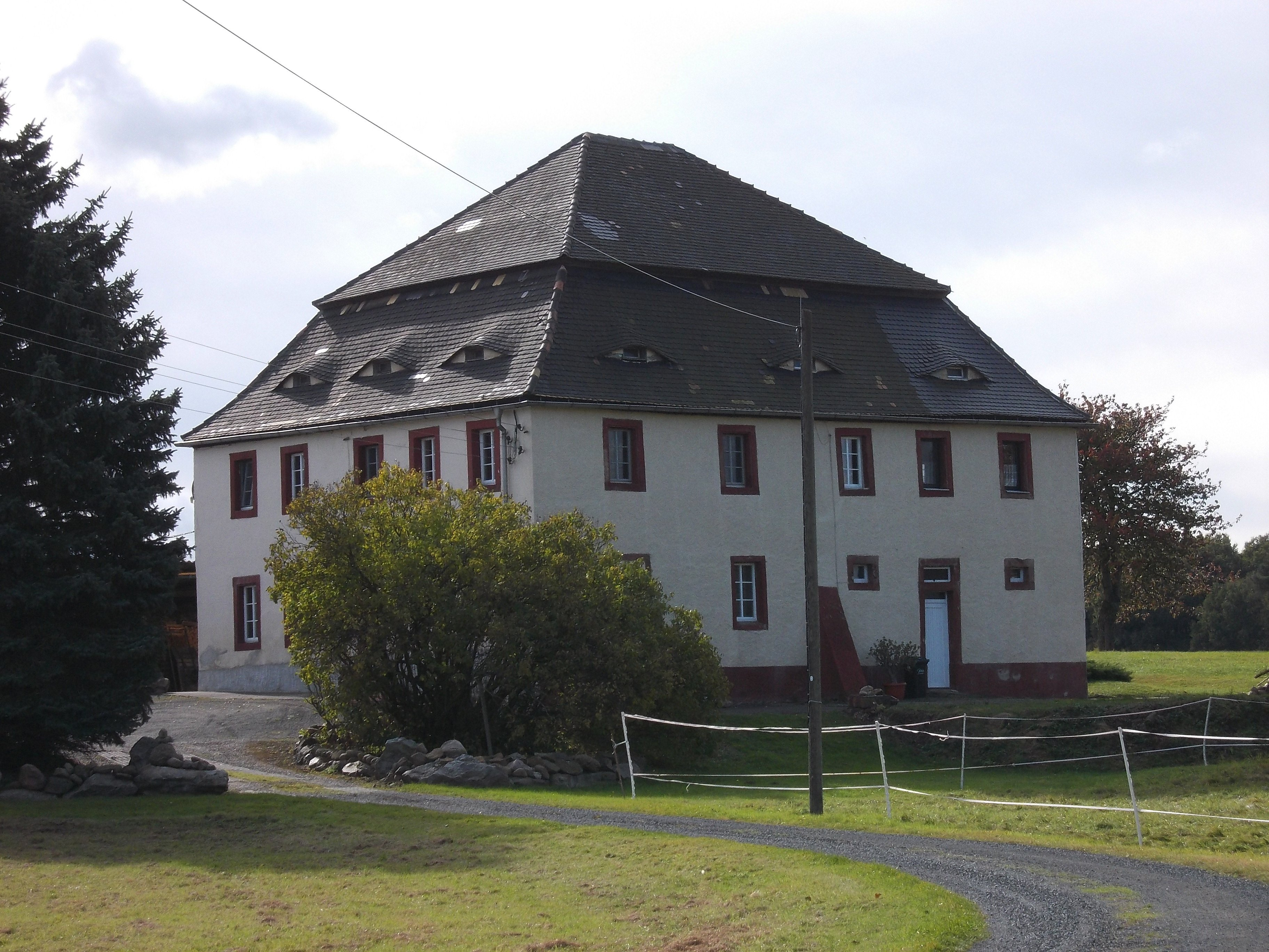 Manor house of the former forest estate in Glasten (Bad Lausick, Leipzig district, Saxony)